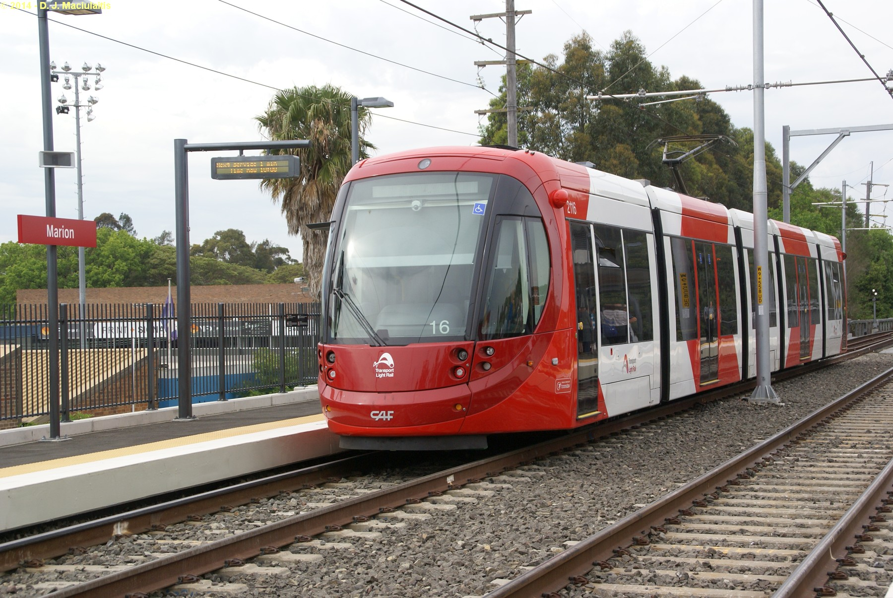 CAF tram 16 - Marion, Sydney - 13/10/2014